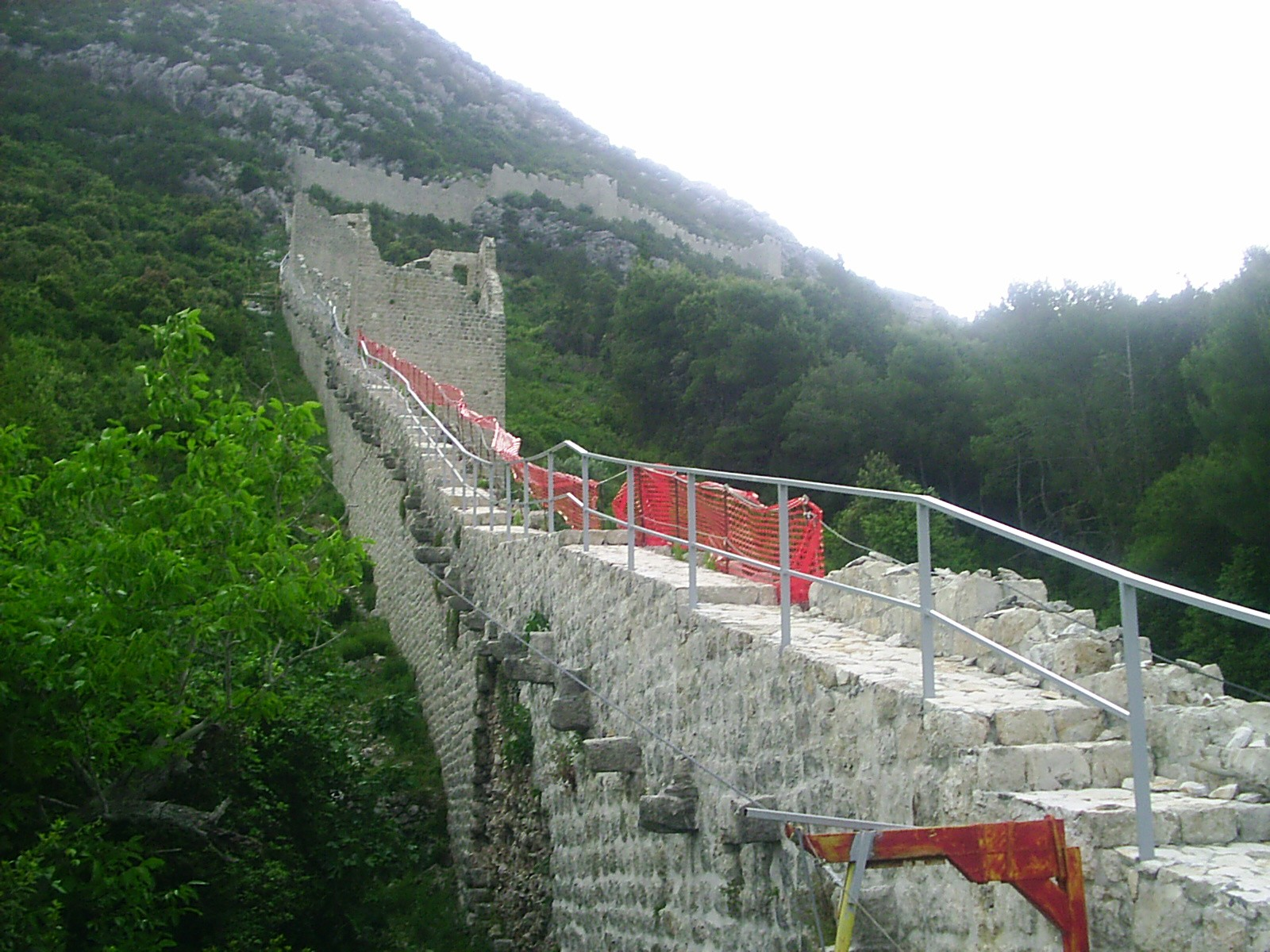 City of Ston at Pelješac peninsula, Croatia